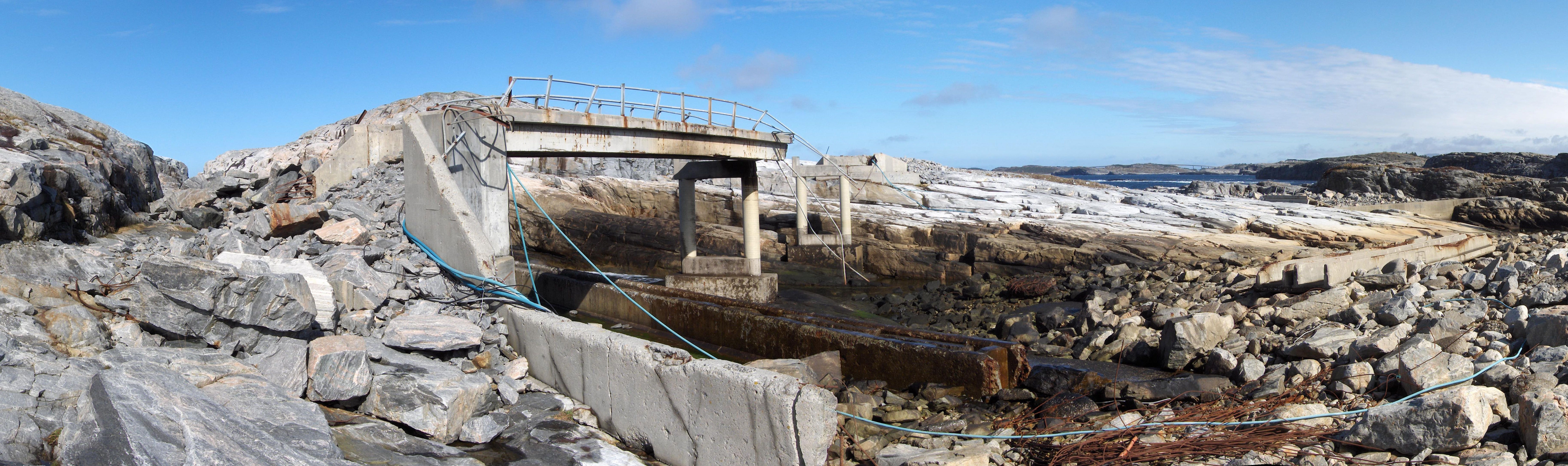 Wave energy test site ruins at Toftestallen, Øygarden, near Bergen, Norway